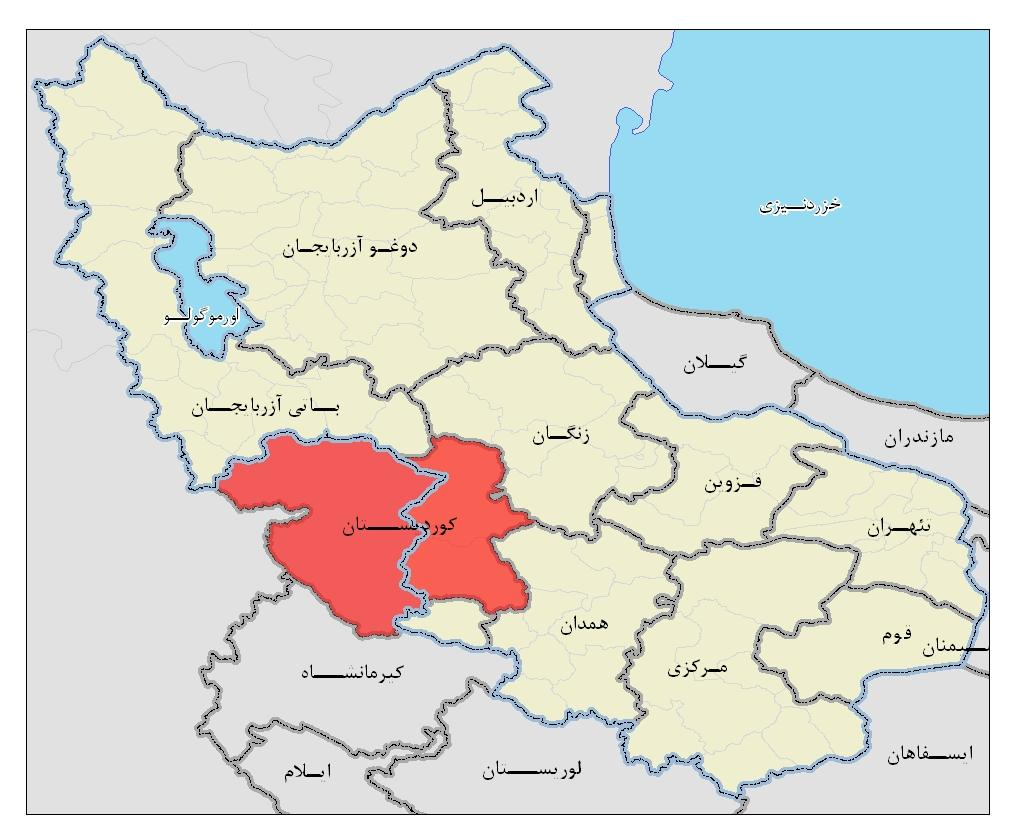 Kurdistan province in Iran